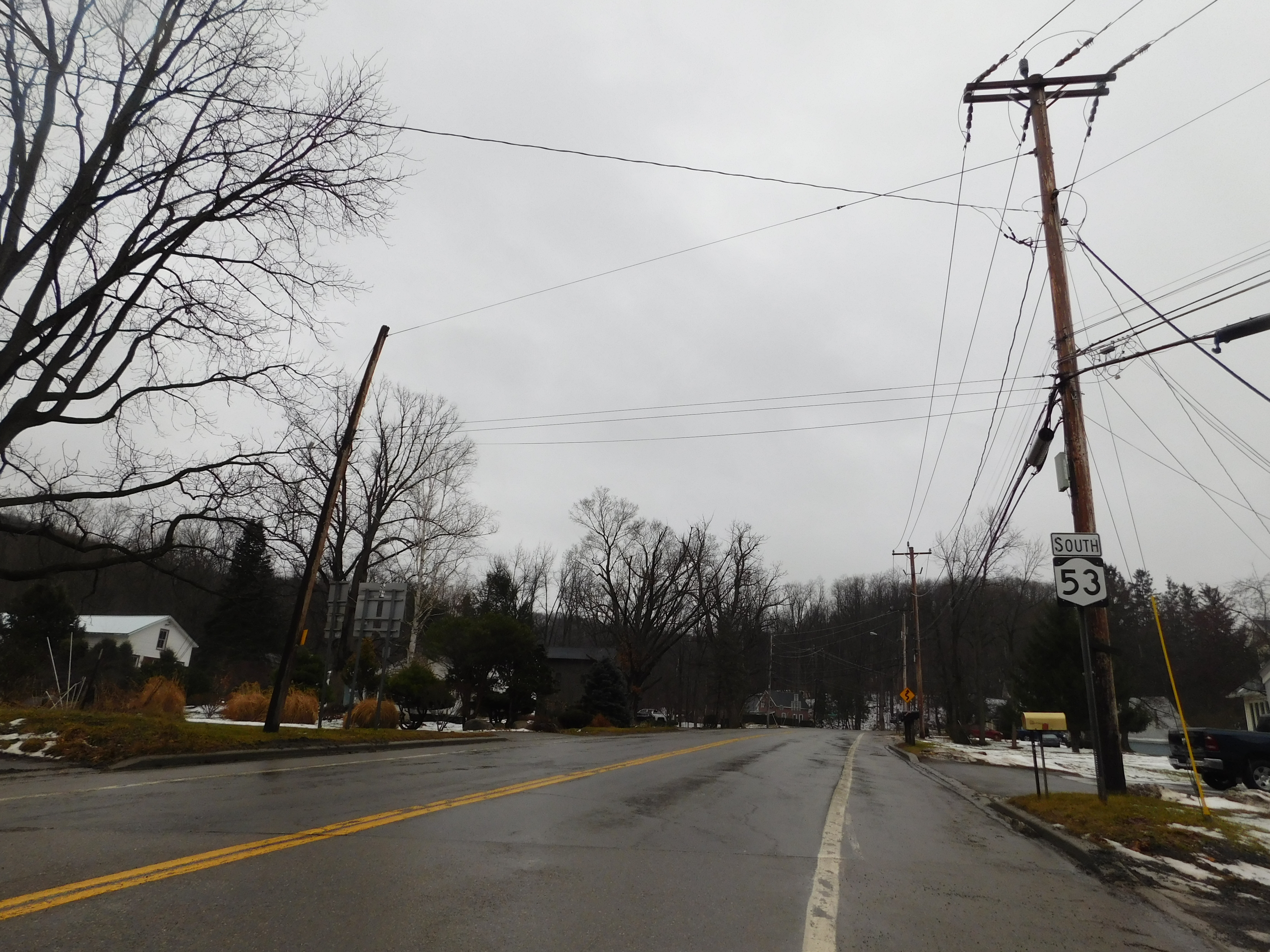 New York State Route 53 southbound in Naples, New York.